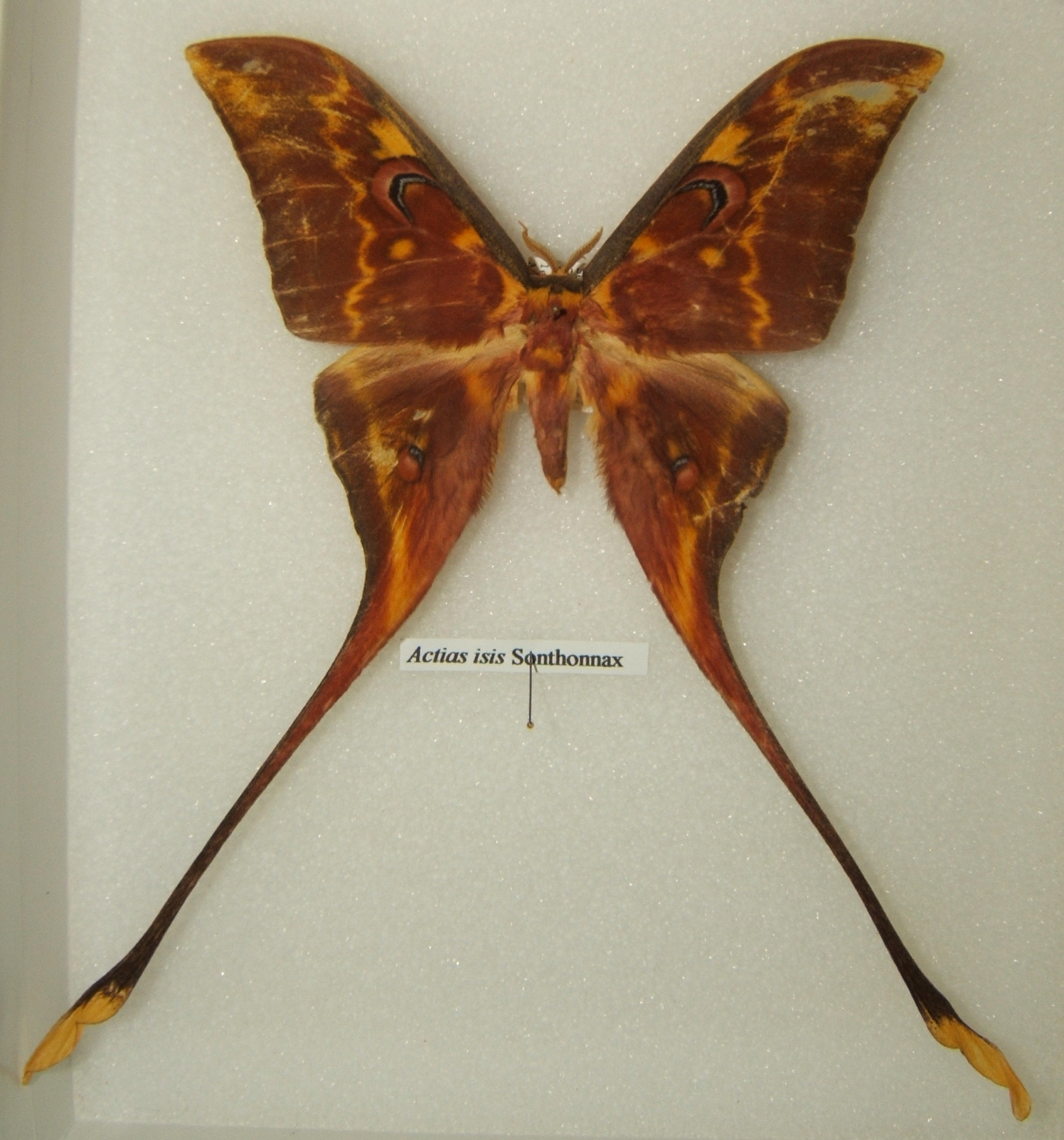 Actias isis adult male taken by Shawn Hanrahan at the Texas A&M University Insect Collection in College Station, Texas.